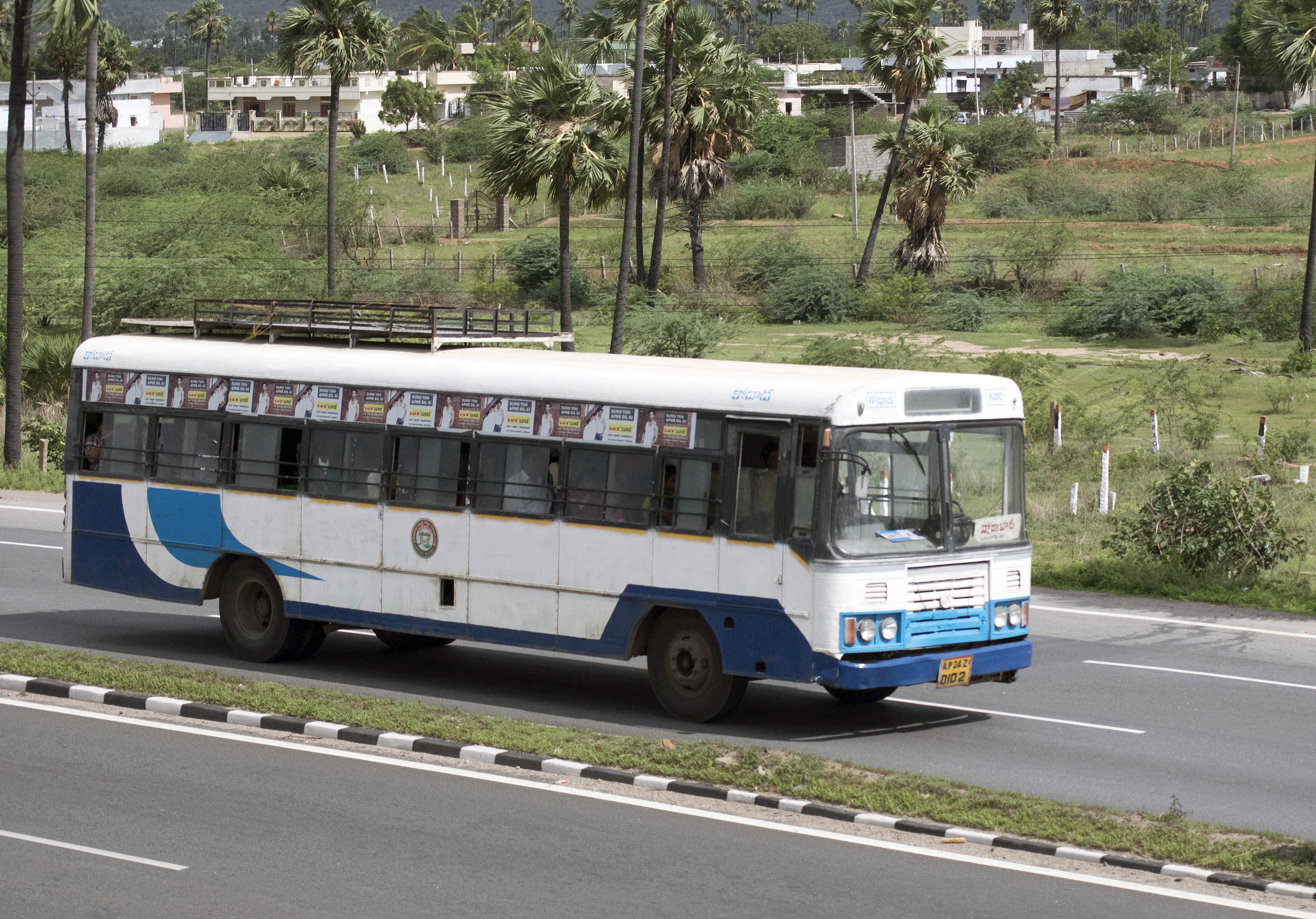 An Express - class TGSRTC Bus en route to Hyderabad